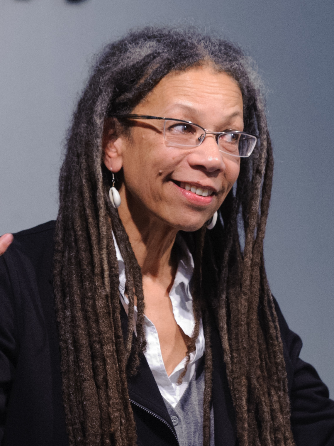 Ruth Wilson Gilmore speaking at the 'radius of art - Konferenz', hosted at the Heinrich Böll Foundation in Berlin, Germany.